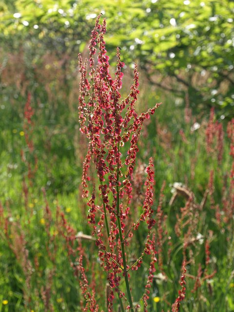 Sorrel north of Blackdown Hill Common sorrel (Rumex acetosa) in a young wood crossed on a conservation walk near Blackdown Rings.